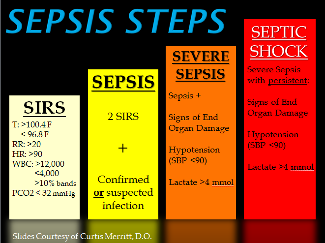 Teaching slide for help in identifying possible sepsis syndrome, severe sepsis, and septic shock.